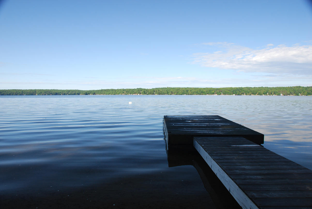 Boshkung lake early in the morning